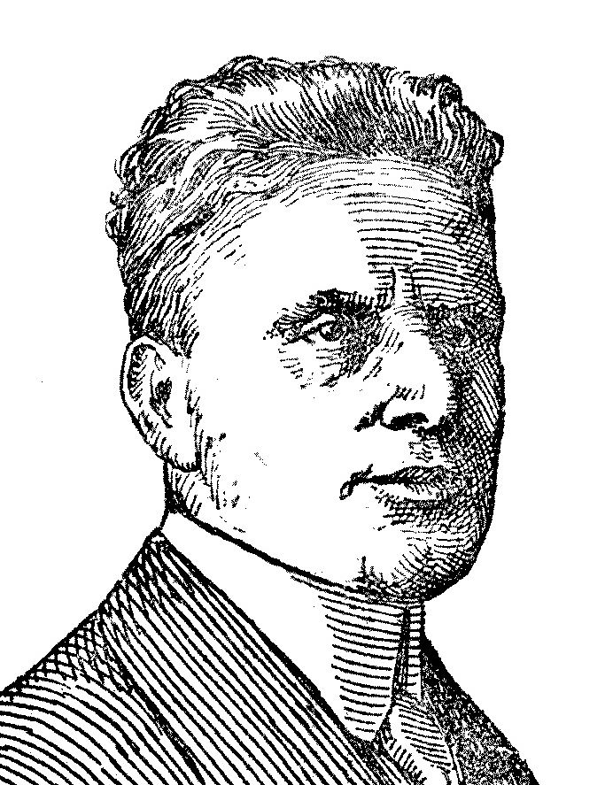 Maximilian Schreier (1877–1942), Austrian journalist and member of the Gemeinderat and Landtag of Vienna.